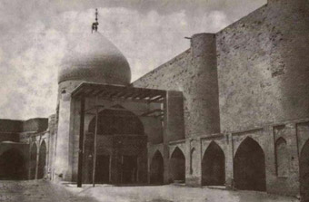 Old Photo of Kufa Mosque in Iraq